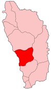 Map of Dominica showing Saint Paul parish.